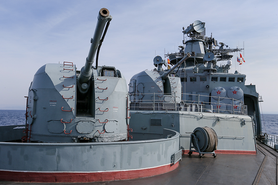 Permanent group of the Russian Navy in the Mediterranean Sea provides air defence in Syria